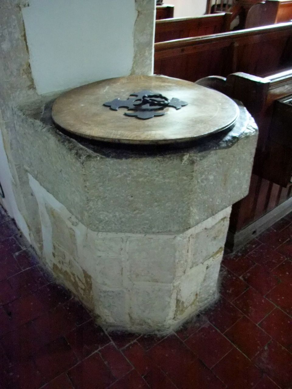 Norman architecture Baptismal font, St Giles church, Wormshill